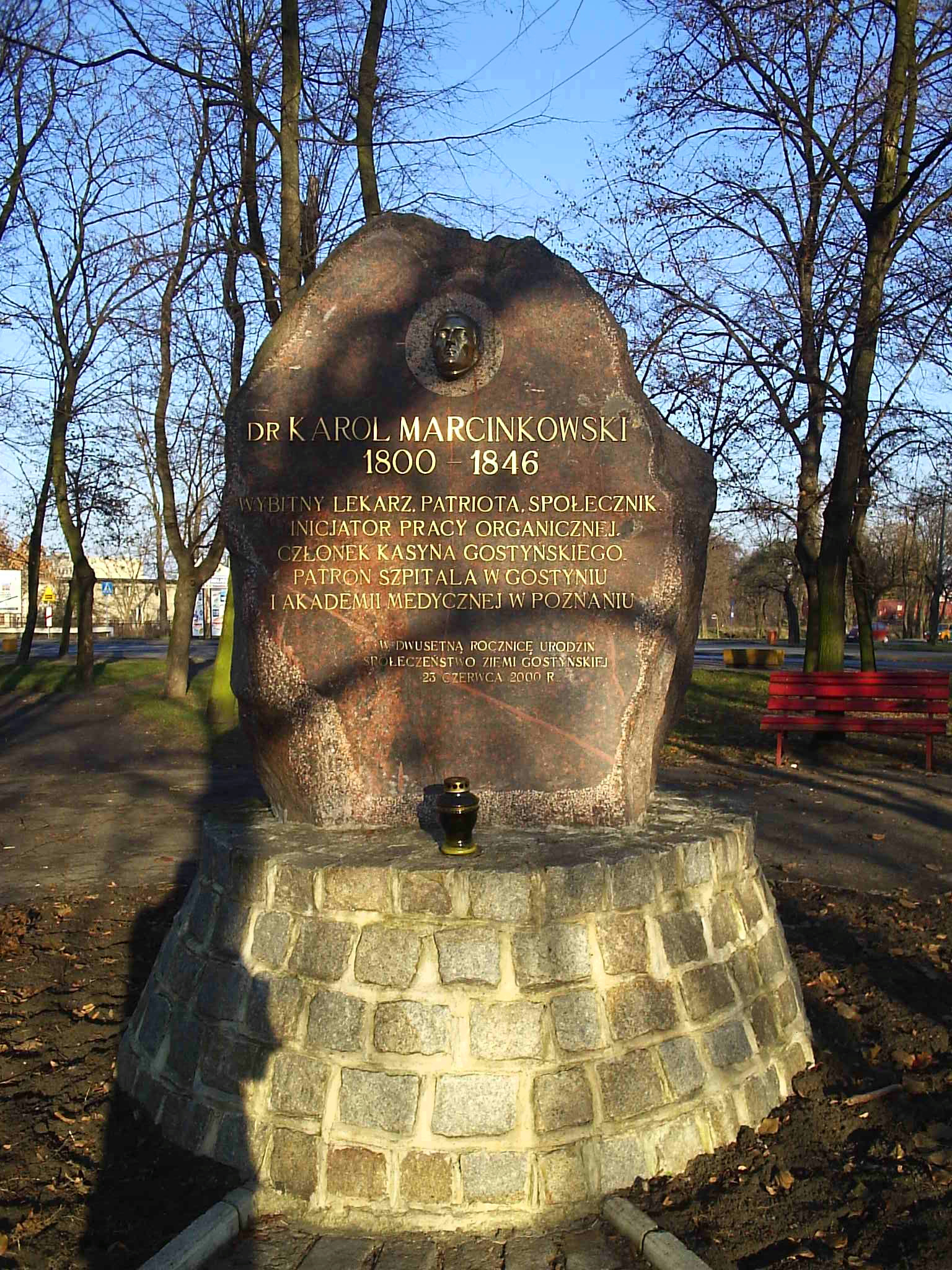 in Gostyń, Poland